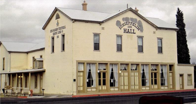 Schiefflin Hall in Tombstone, Arizona. Schieffelin Hall was built in 1881 by Albert Schieffelin, brother of Ed Schieffelin. This property is located within the Tombstone Historic District listed in the National Register of Historic Places, ref: 66000171